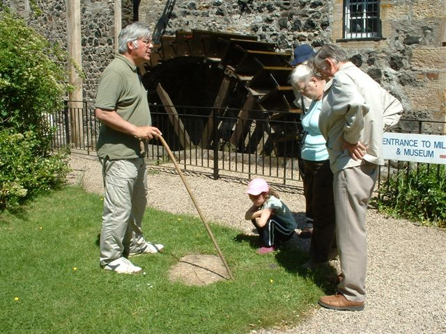 Dalgarven Mill Waterwheel and members of the public at a Guided Tour,the trustee on the left who is leading the tour is currently showing the public the cup and ring marked stone.